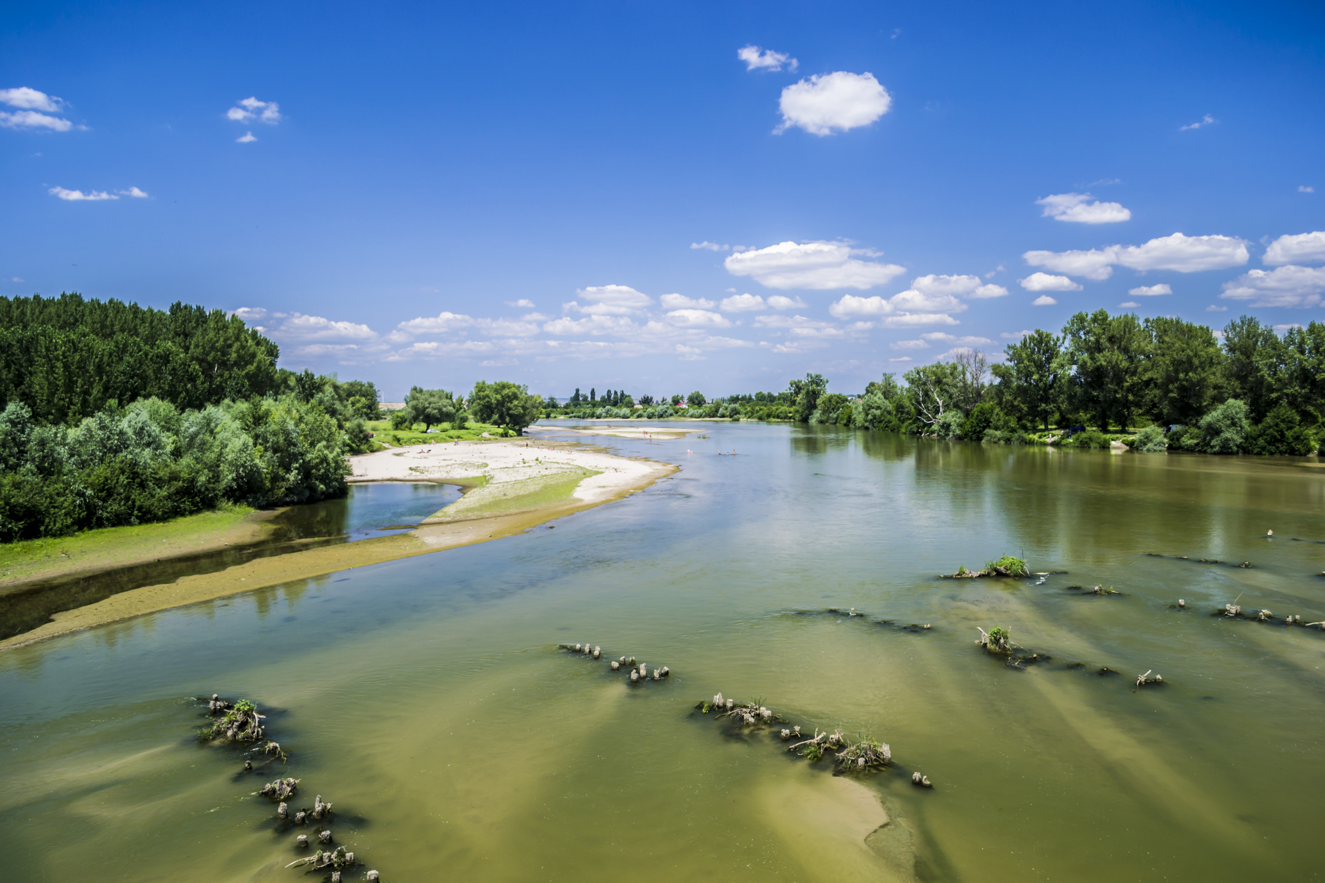 The beautiful view of the Jiu River in Craiova City of Dolj County, Romania